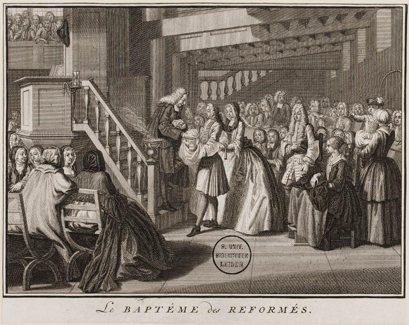 Engraving of a Reformed baptism from Cérémonies et coutumes religieuses de tous les peuples du monde by Bernard Picart